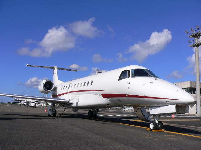 Embraer Legacy Exterior